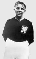 Oldrich Nejedly, top goalscorer of 1934 WC